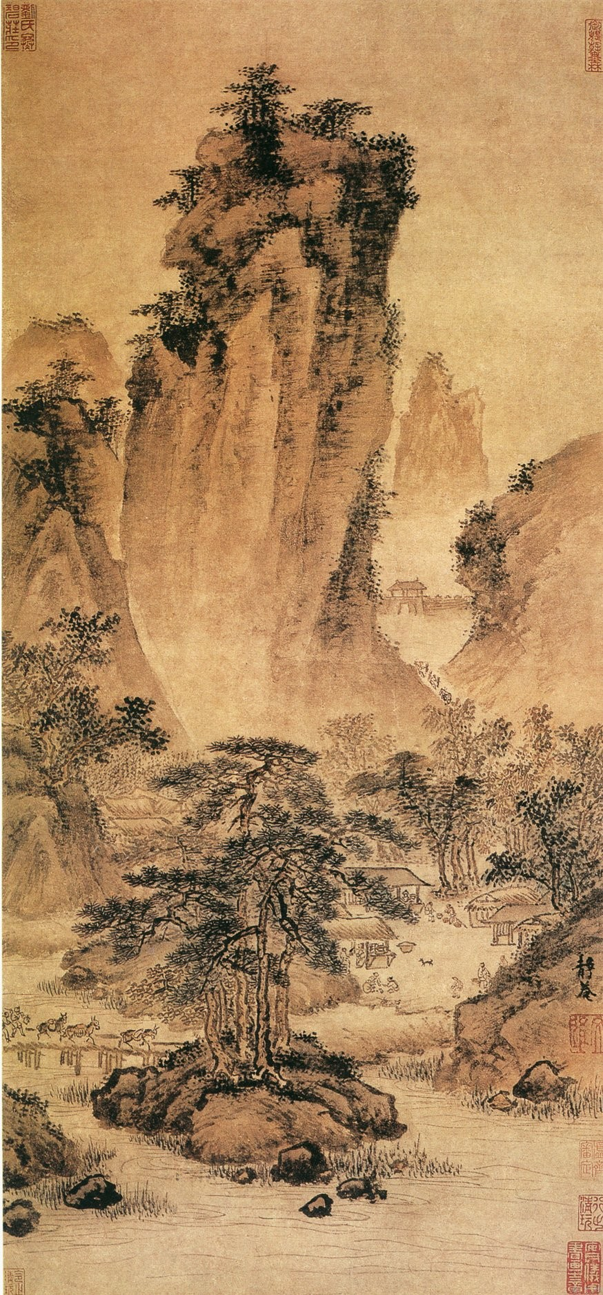 "Travelers Through Mountain Passes" (关山行旅图), Dai Jin, Ming Dynasty, China, Palace Museum, Beijing. Hanging scroll, ink and color on paper. 61.8 x 29.7 cm. See Barnhart, R. M. et al. (1997). Three thousand years of Chinese painting. New Haven, Yale University Press. ISBN 0-300-07013-6 page 212.